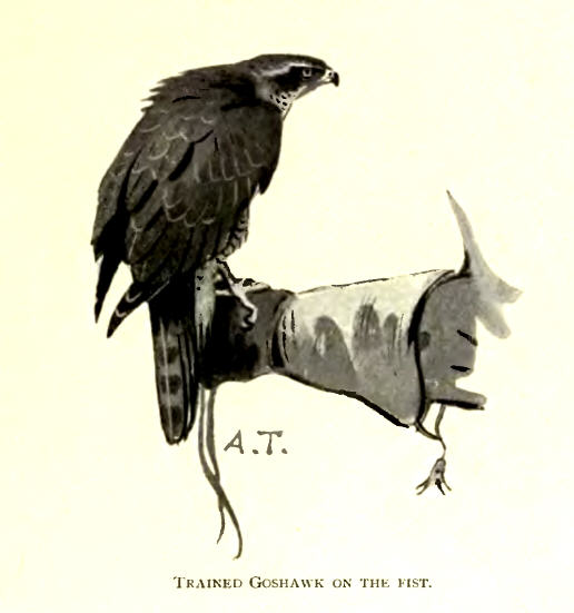 Goshawk in falconer's hand